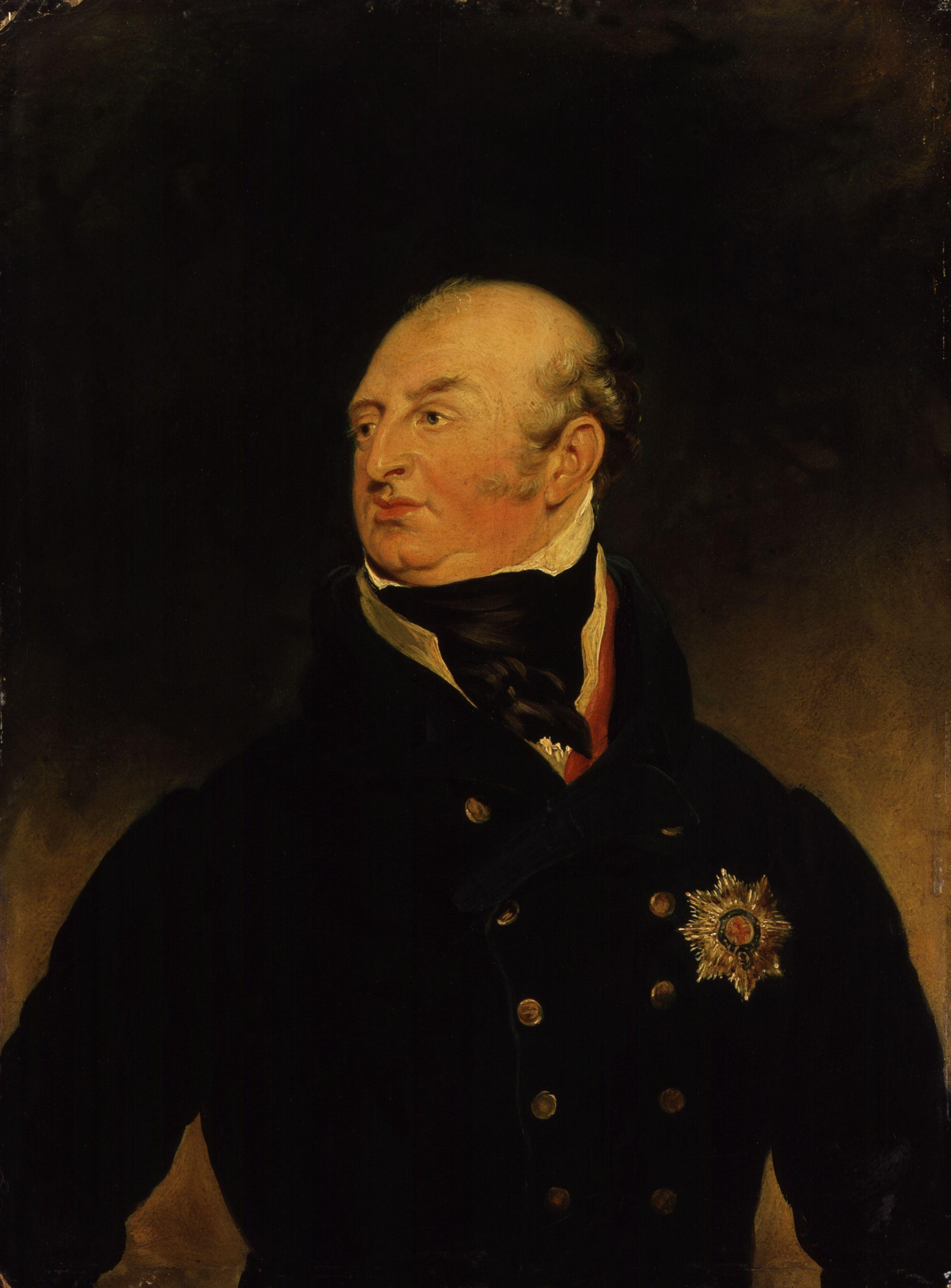 Frederick, Duke of York and Albany, by Sir Thomas Lawrence (died 1830). All images in this batch have been confirmed as author died before 1939 according to the official death date listed by the NPG.